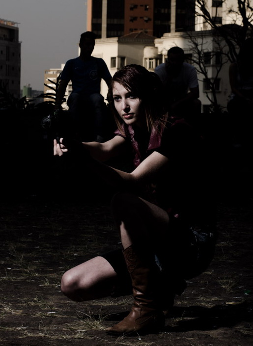 Encontro Cosplay (Paulista/Masp) - 2012